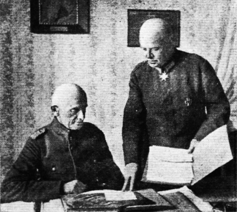 General-Lieutenant Ernst von Hoeppner, the Commander of the German Air Service in consultation with his Chief of Staff, Oberst-Lieutenant Thomsen.